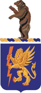 Coat of arms of the 135th Aviation Regiment of the US Army